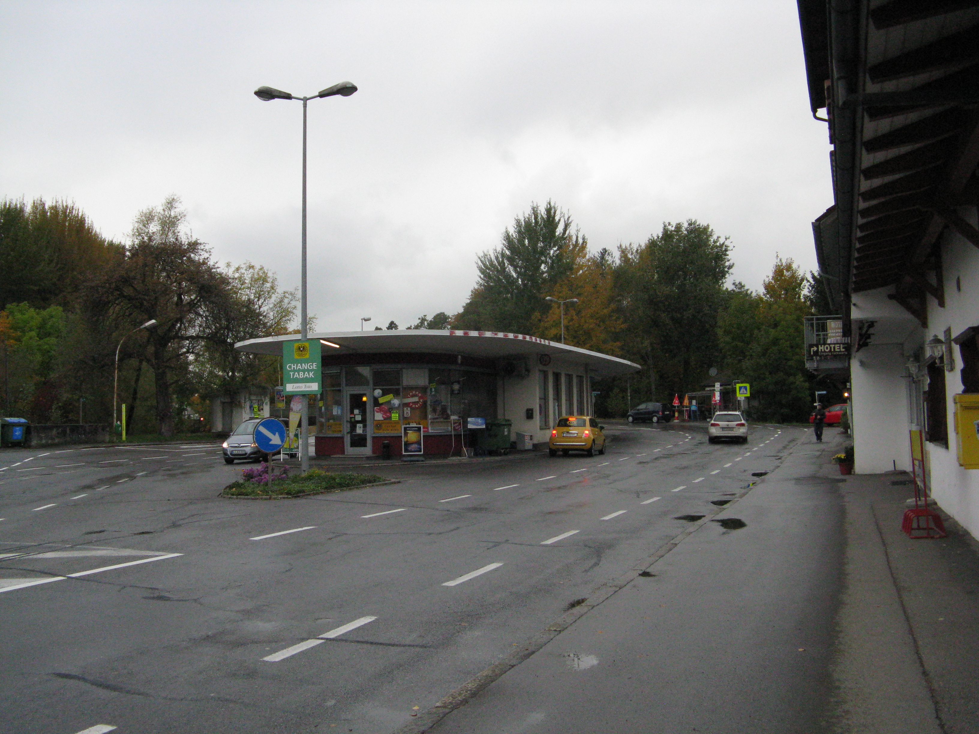 former border station in Hoerbranz, Vorarlberg